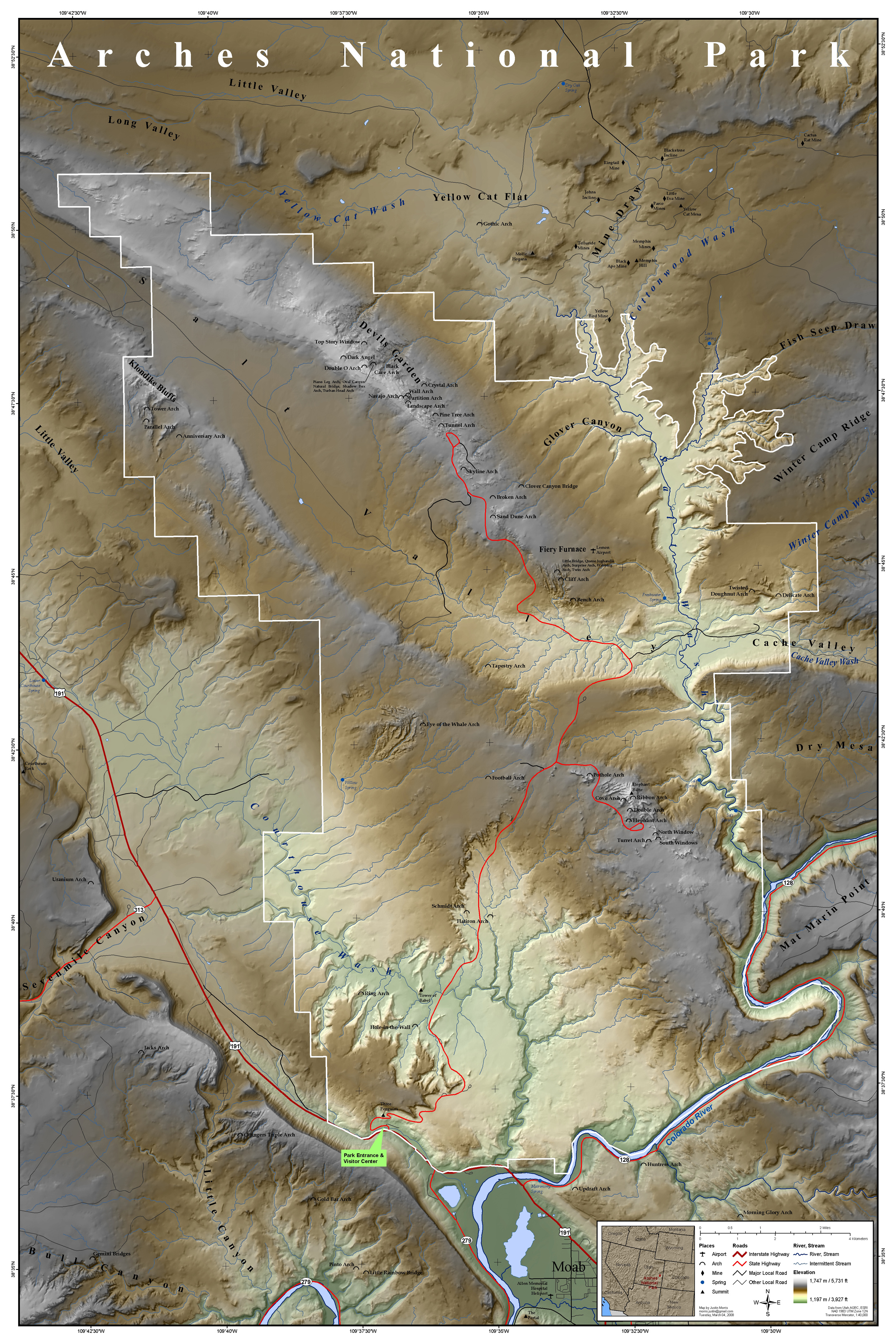 Map of Arches National Park, Utah, United States showing predominant features such as arches, peaks, rivers and streams, mines, and roads.